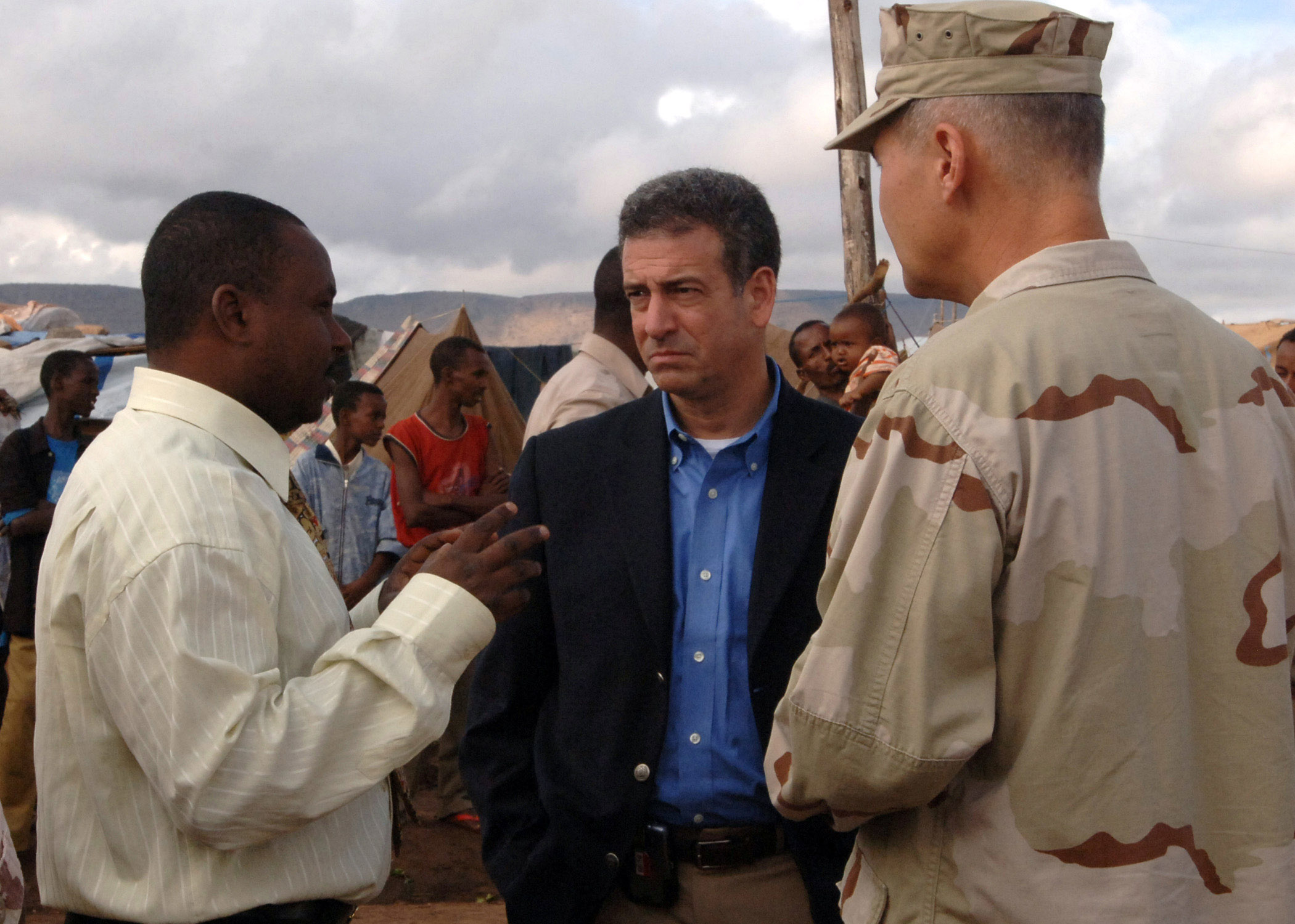 Dire Dawa, Ethiopia (Dec. 2, 2006) - Ahmed Buh, Dire Dawa deputy mayor, speaks with Wis. Senator Russ Feingold and Rear Adm. Richard Hunt, commander of Combined Joint Task Force-Horn of Africa (CJTF-HOA), about specifics of a tent city set up by CJTF-HOA after a severe flooding in Dire Dawa, Ethiopia. The senator visited various Horn of Africa locations during his orientation visit.